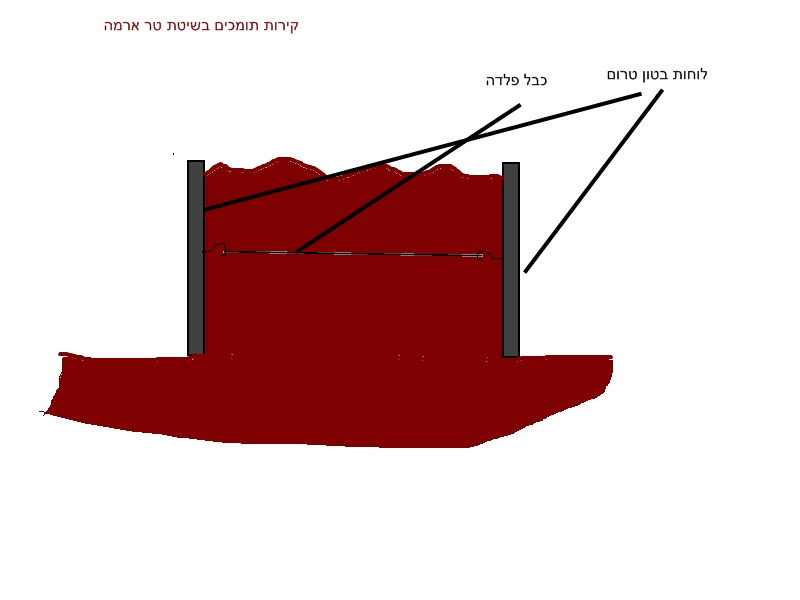 Drawing to show ter arme walls